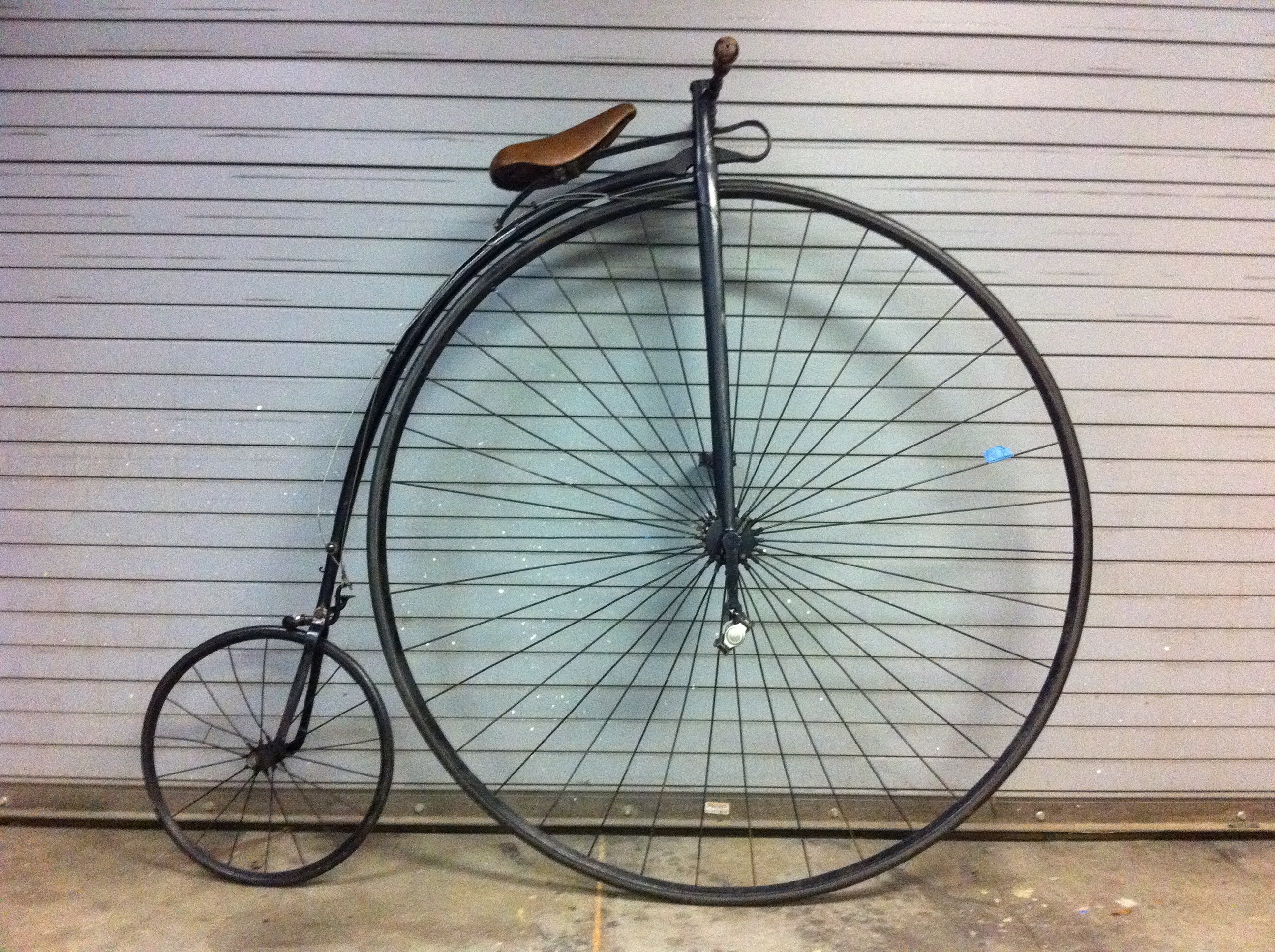 Ariel - 50" High Wheel Bike